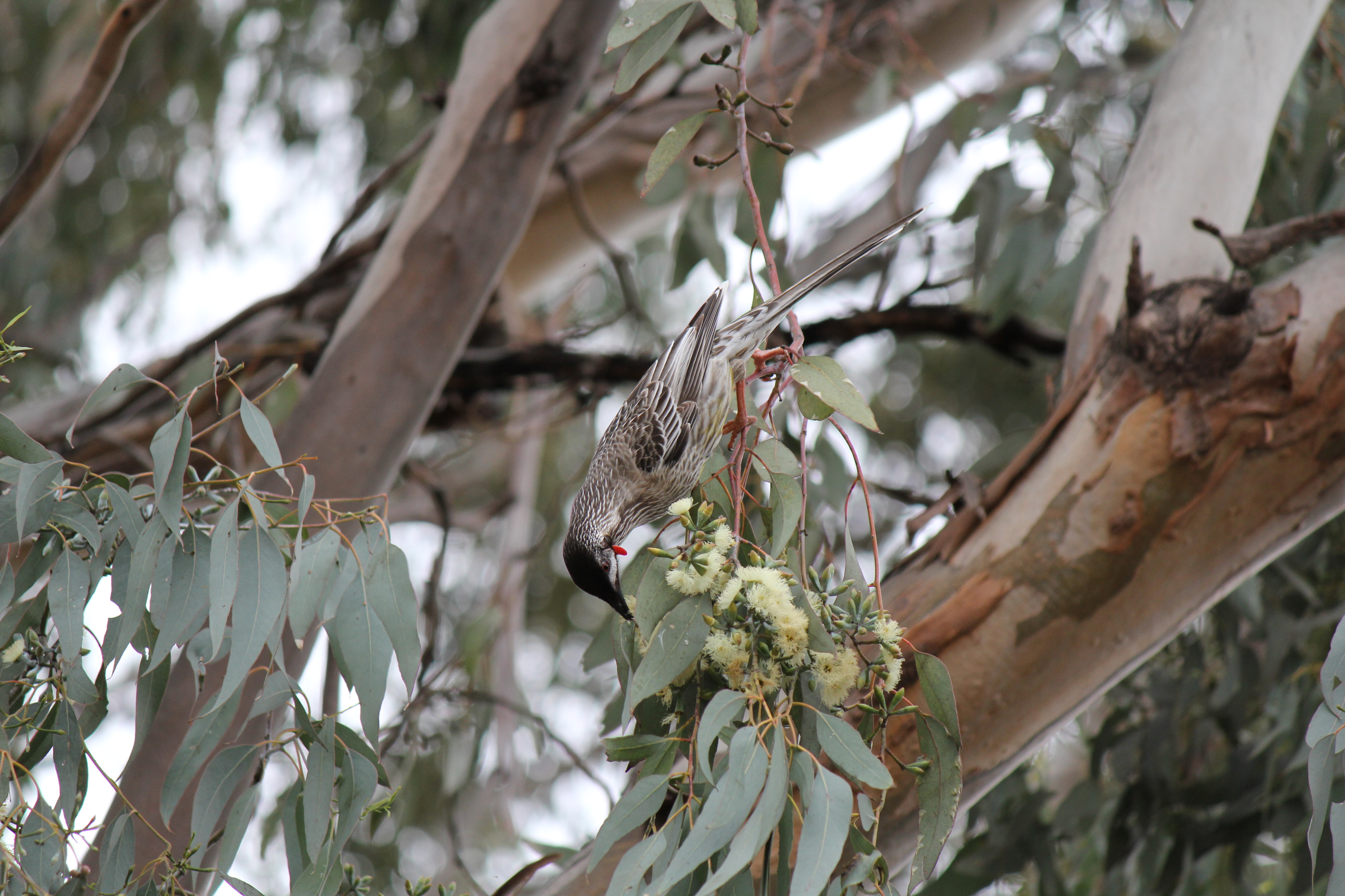 Red wattlebird (Anthochaera carunculata) feeding off Grey Box (Eucalyptus microcarpa) flowers at TAFE NSW - Riverina Institute.